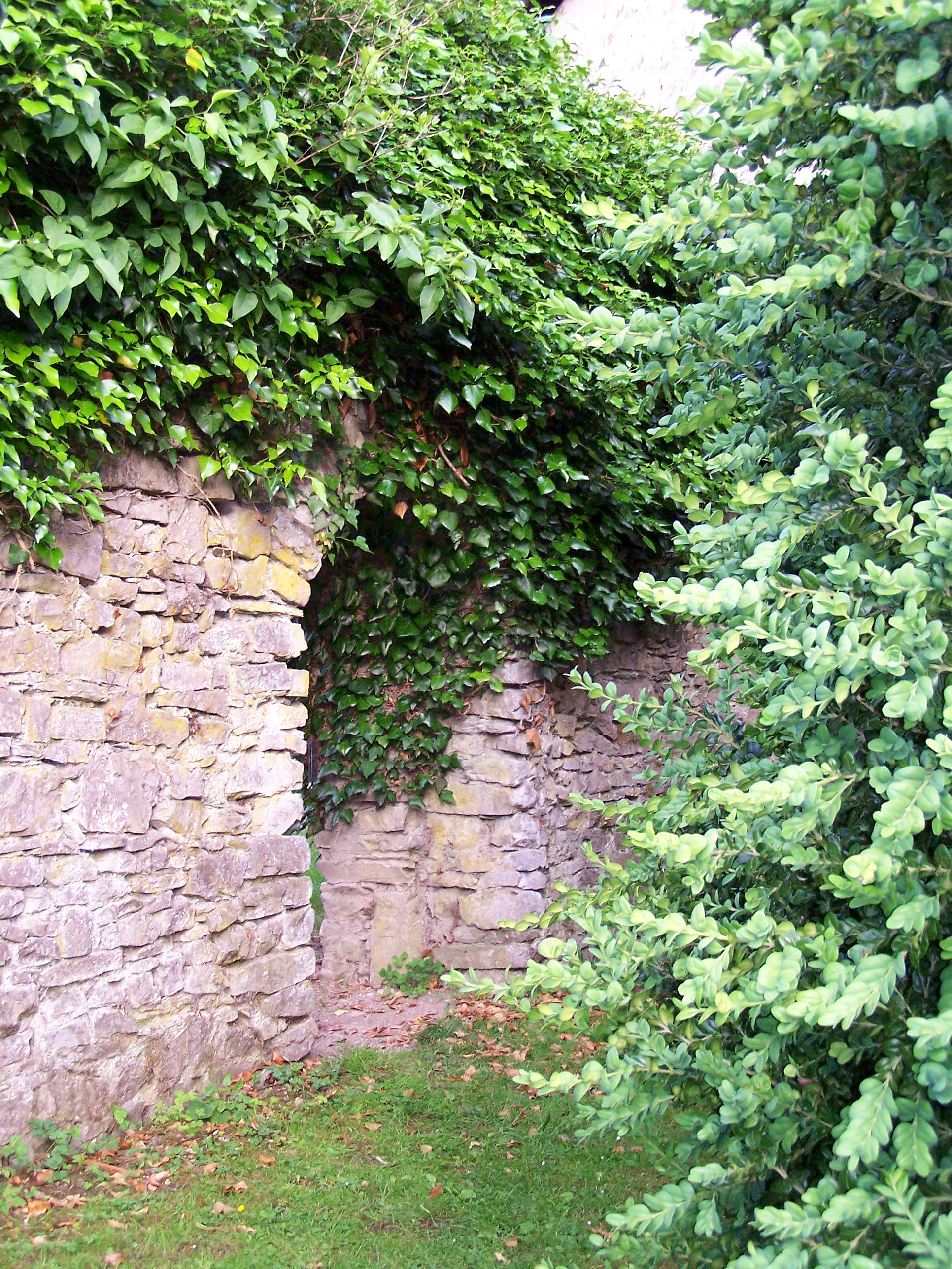 Former passage between the cloister and the burial site of the late romanesque evangelic Nicholas-Church in Caldern, former monastery church of Cistercian nuns first mentioned in 1235 and monastery church from 1250 until 1527, June 2012